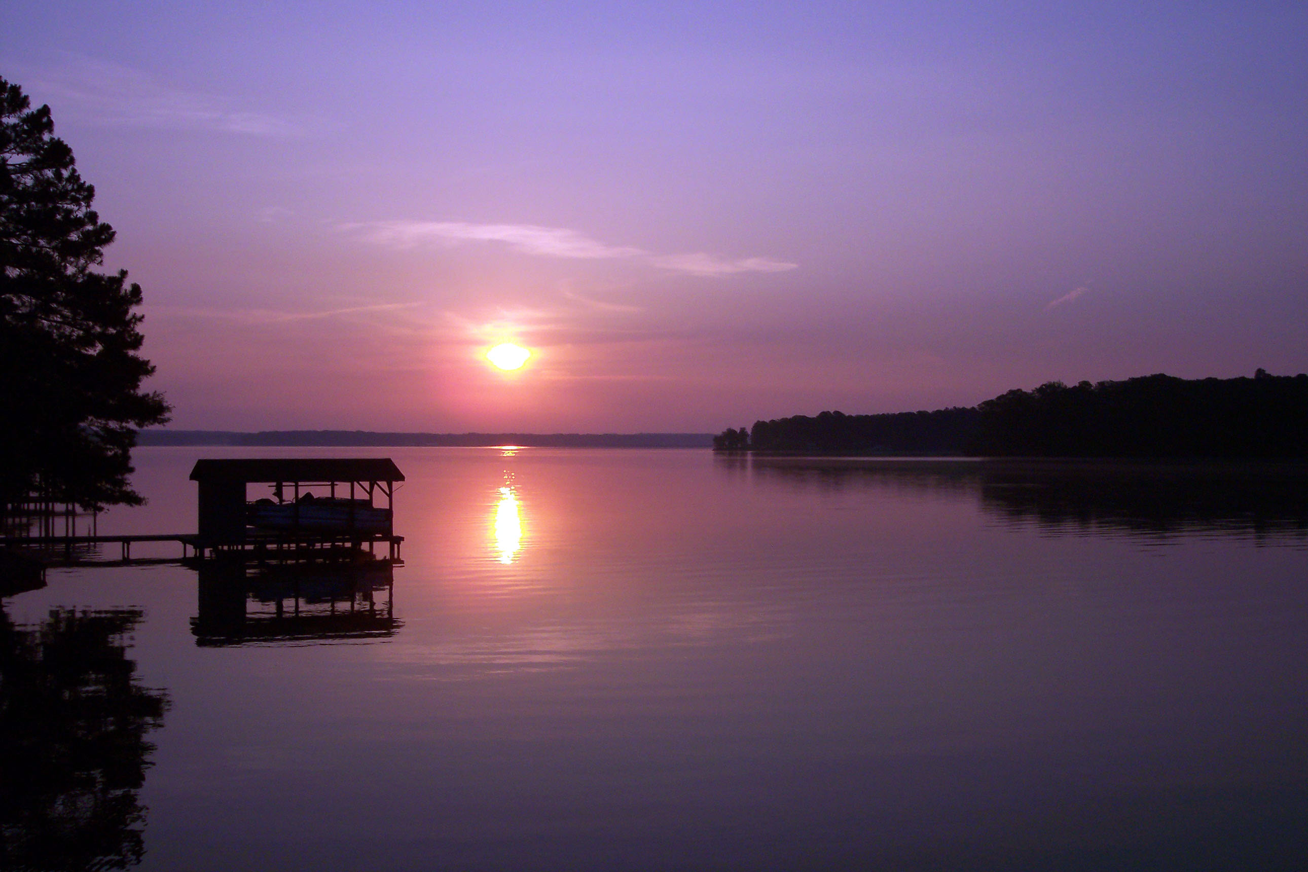 Lake Gaston, at dawn, 2007. This picture, taken from the Old Bridge Point subdivision, on Hubquarter Creek, depicts an early sunrise. "The date in the metadata is incorrect, due to not setting the camera date."